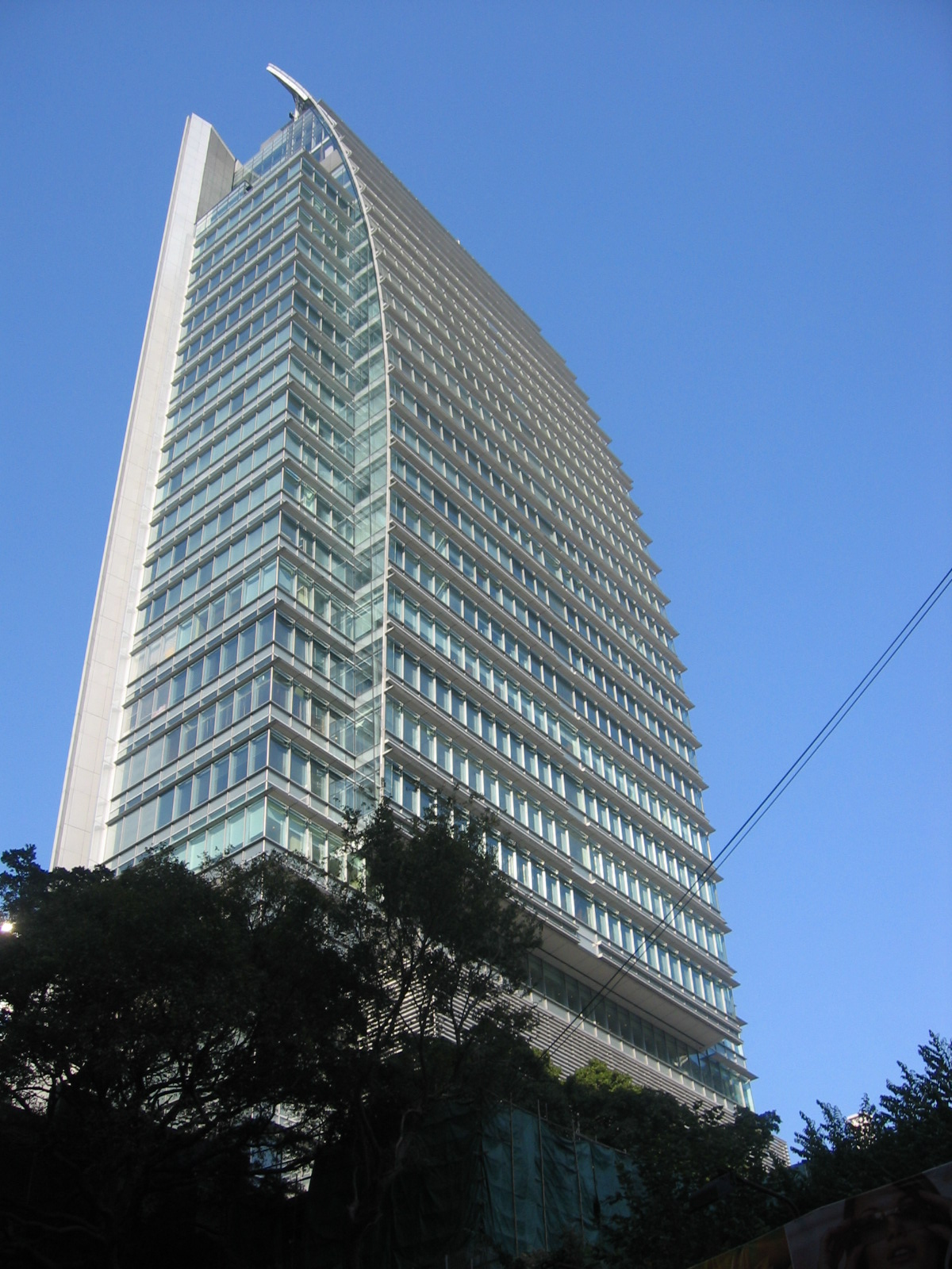 One Peking.